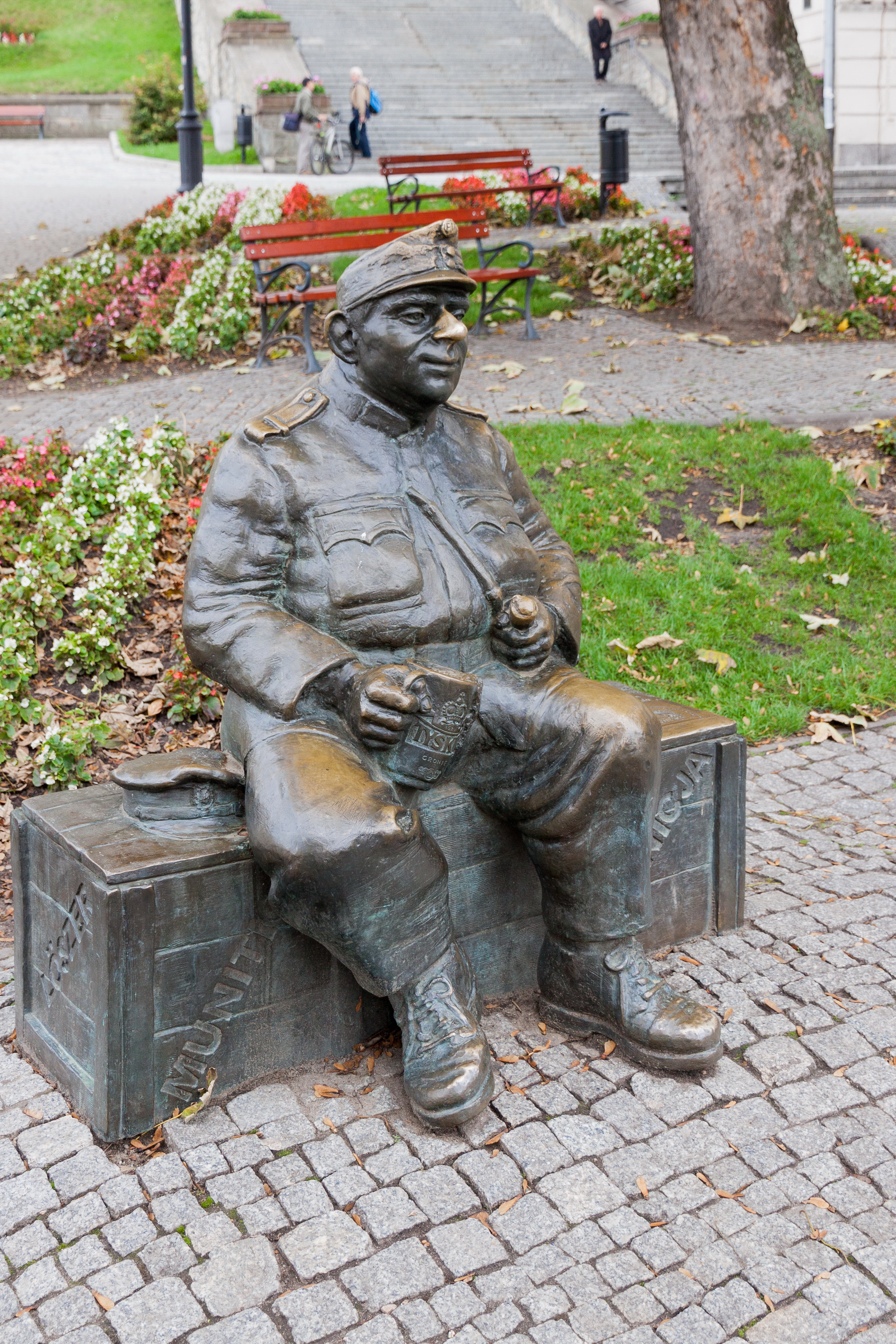 Josef Švejk monument on the Market Square. Przemyśl, Subcarpathian Voivodeship, Poland.